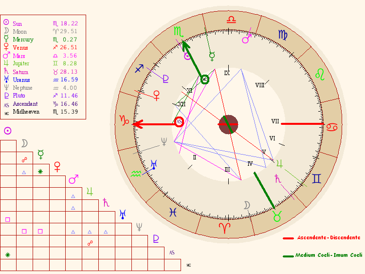 Example of birth chart. Own work.